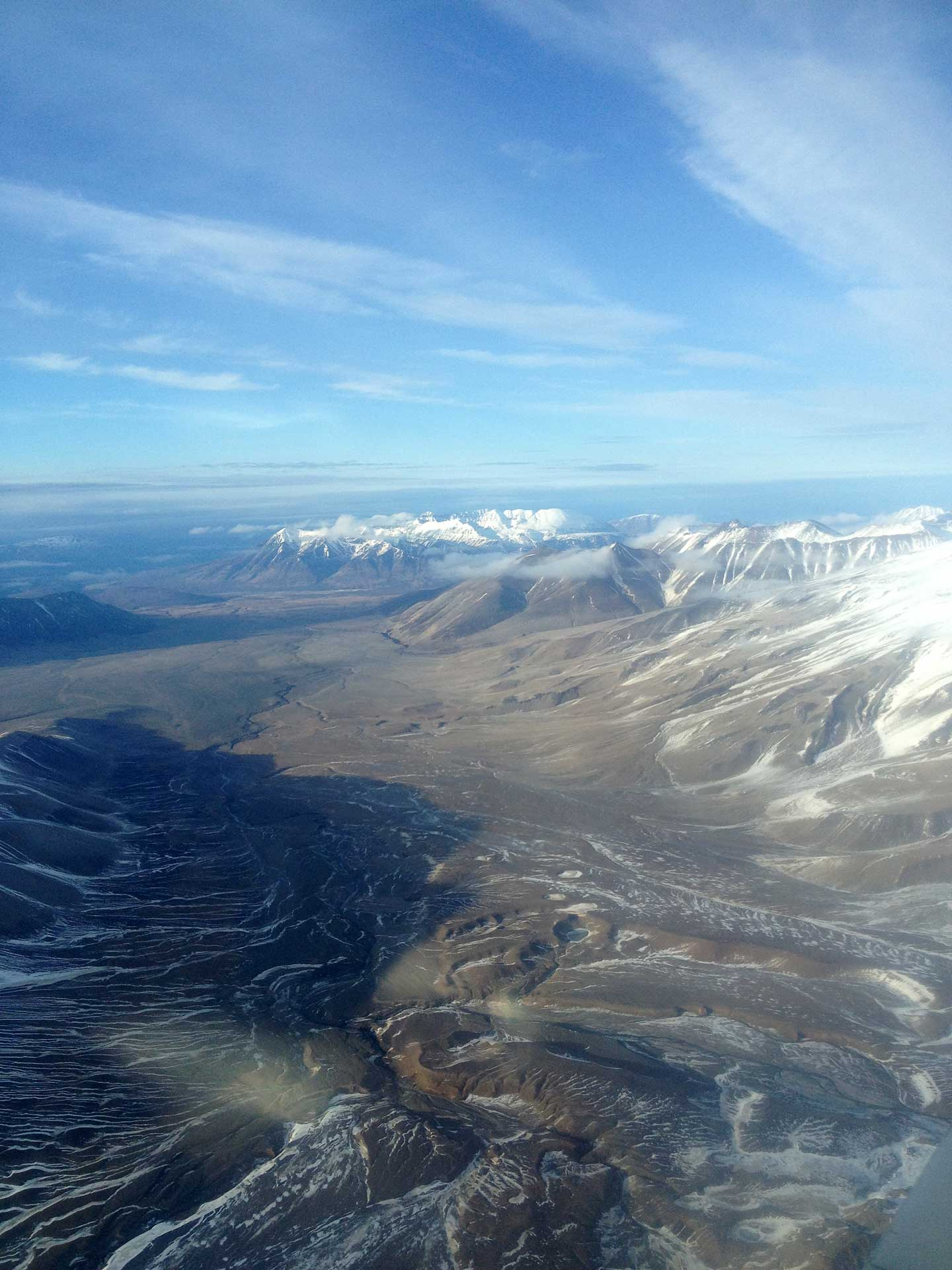 Looking north down the Valley of Ten Thousand Smokes